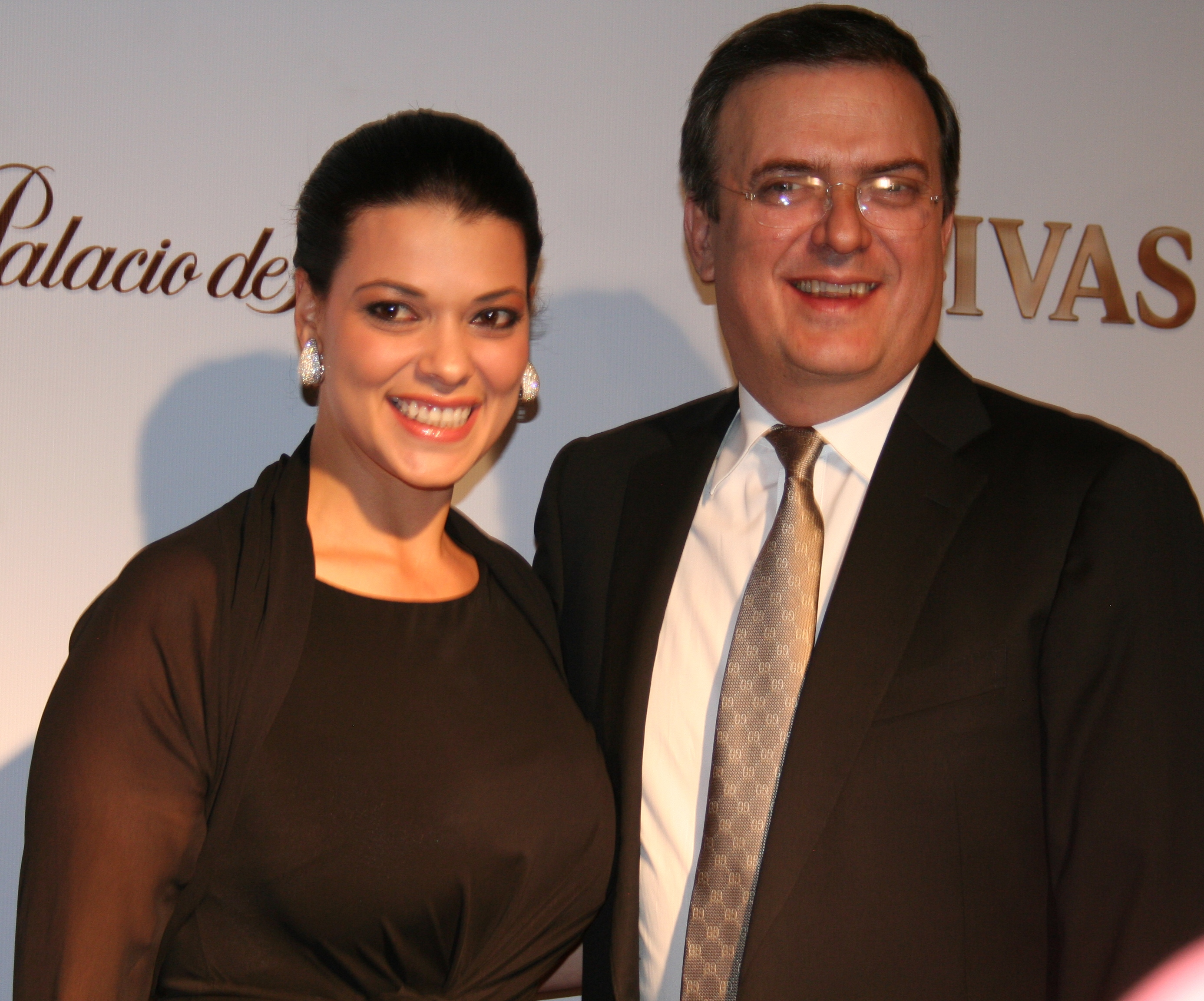 Marcelo Ebrard and wife at the 50 personajes que mueven a México 2012 sponsored by Quién magazine at the Museo Rufino Tamayo in Mexico City